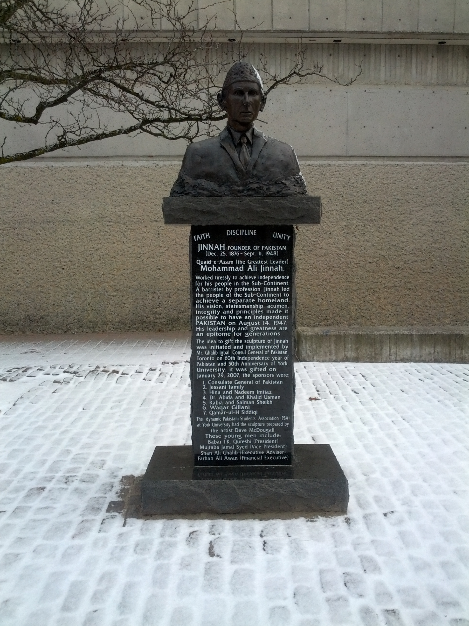 Statue in York University, in Toronto, Ontario, Canada.